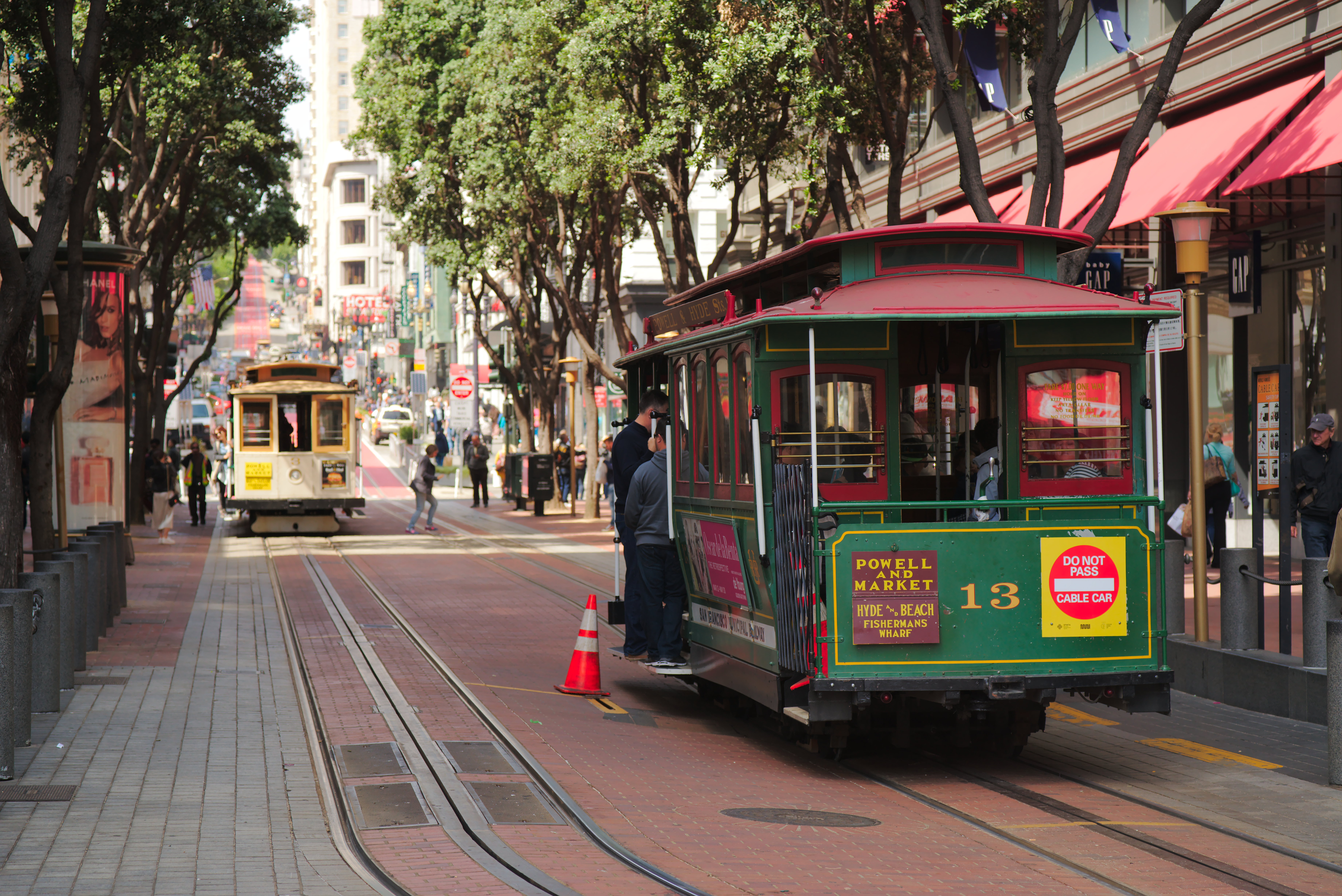 Car 13 of the San Francisco cable car system, a popular tourist attraction.